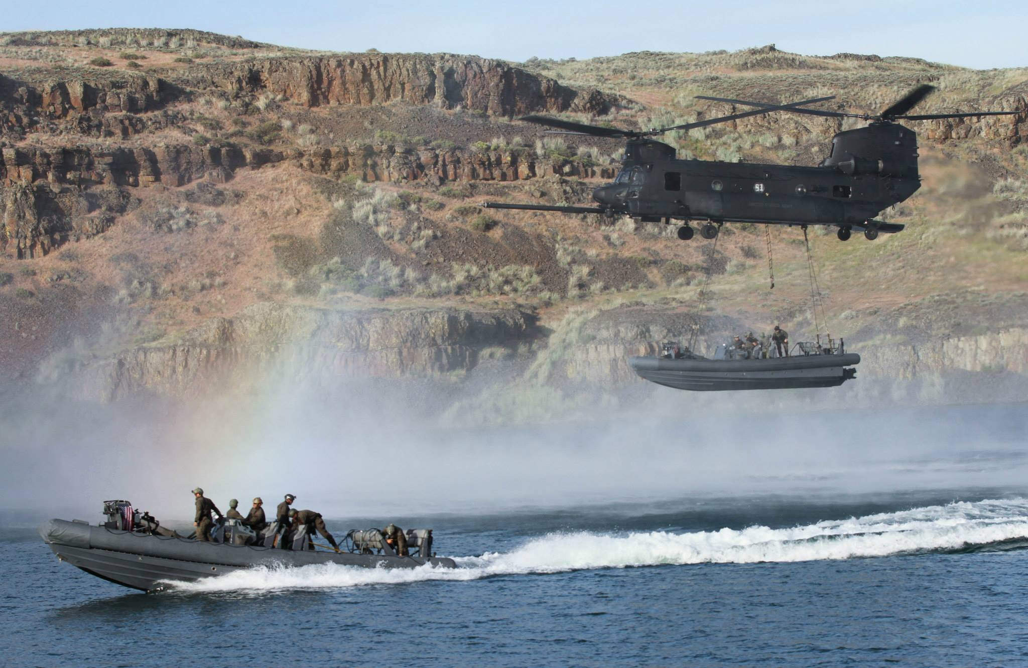 Special Warfare Combatant-craft Crewmen from Special Boat Team 12, stationed at Naval Base Coronado, Calif., with the help of aviators from 4th Battalion, 160th Special Operations Aviation Regiment, stationed at Joint Base Lewis-McChord, Wash., conducted a Maritime External Air Transportation System training evolution in Moses Lake, Wash., May 21. MEATS is a way to move a watercraft from a point on land or water to somewhere else using an Army MH-47G Chinook helicopter. The crewmen rig the boat to the helicopter as it hovers above, and then climb a rope ladder to board the helicopter before moving to the final destination, where they will slide down a rope to the boat before the helicopter disconnects the hoist cables. (U.S. Army photo by Sgt. Christopher Prows) View more images here